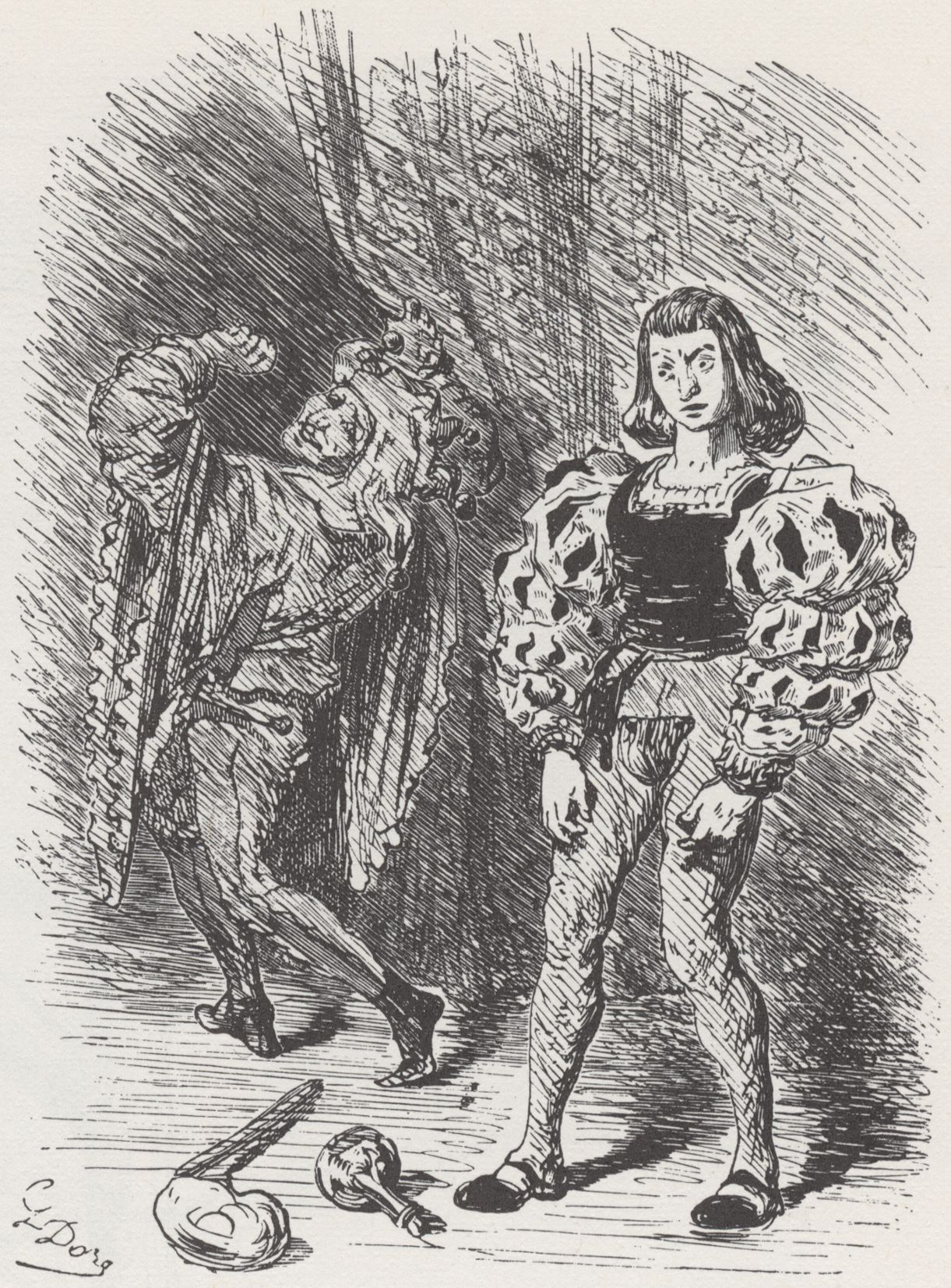 Panurge and Triboulet (by Gustave Doré)